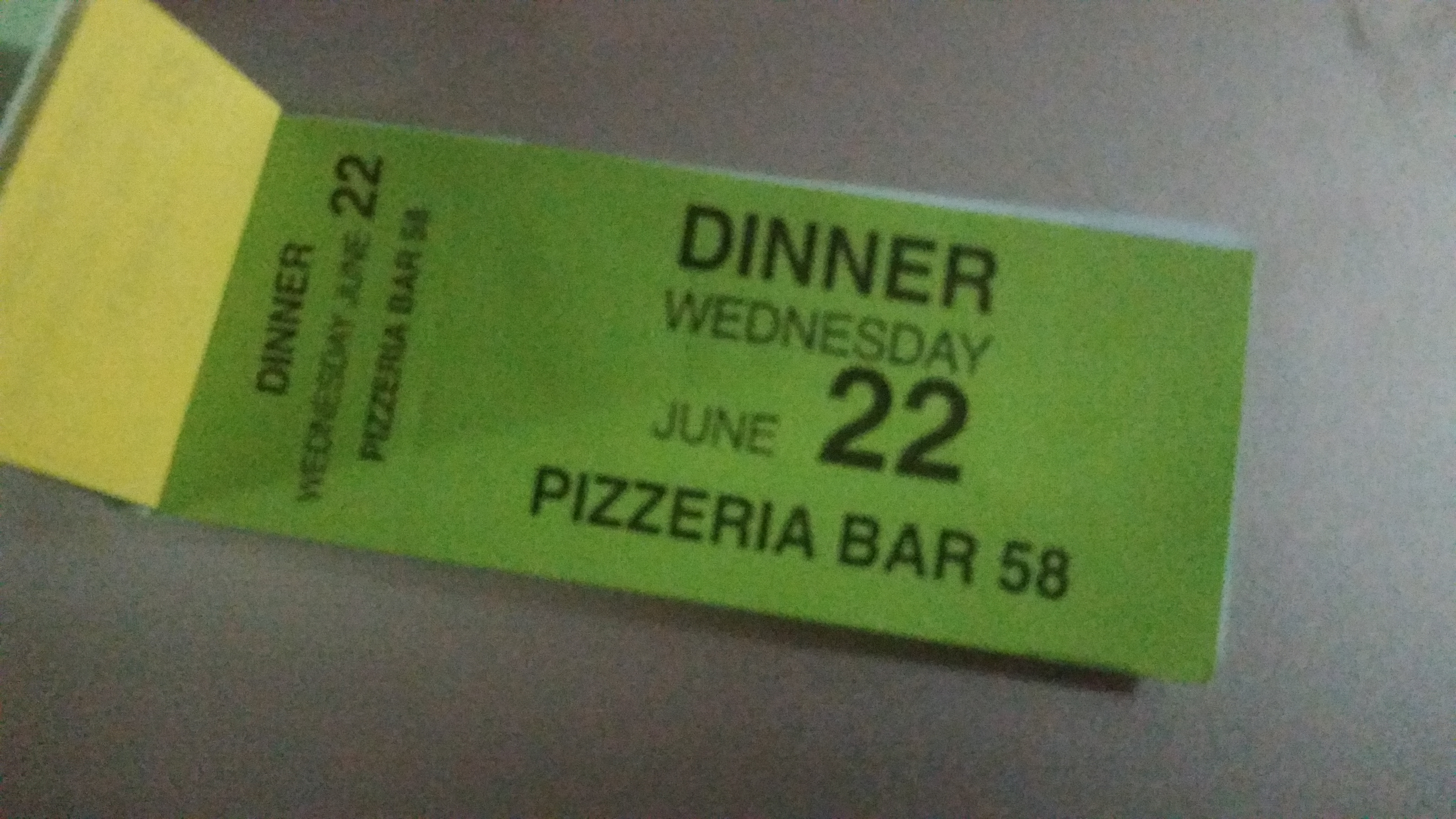 Wikimania2016 dinner vouchers